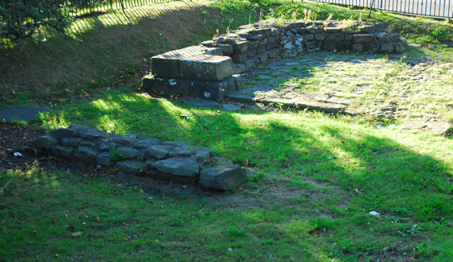 Remains of Roman Fort of Nidum (Neath) The remains of the south gate entrance to the Roman fort at Nidum (circa 100 A.D.)